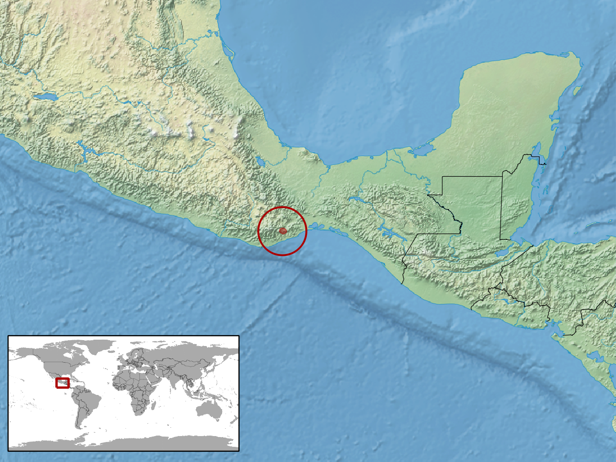 geographic distribution of Geagras redimitus (Native: Mexico)